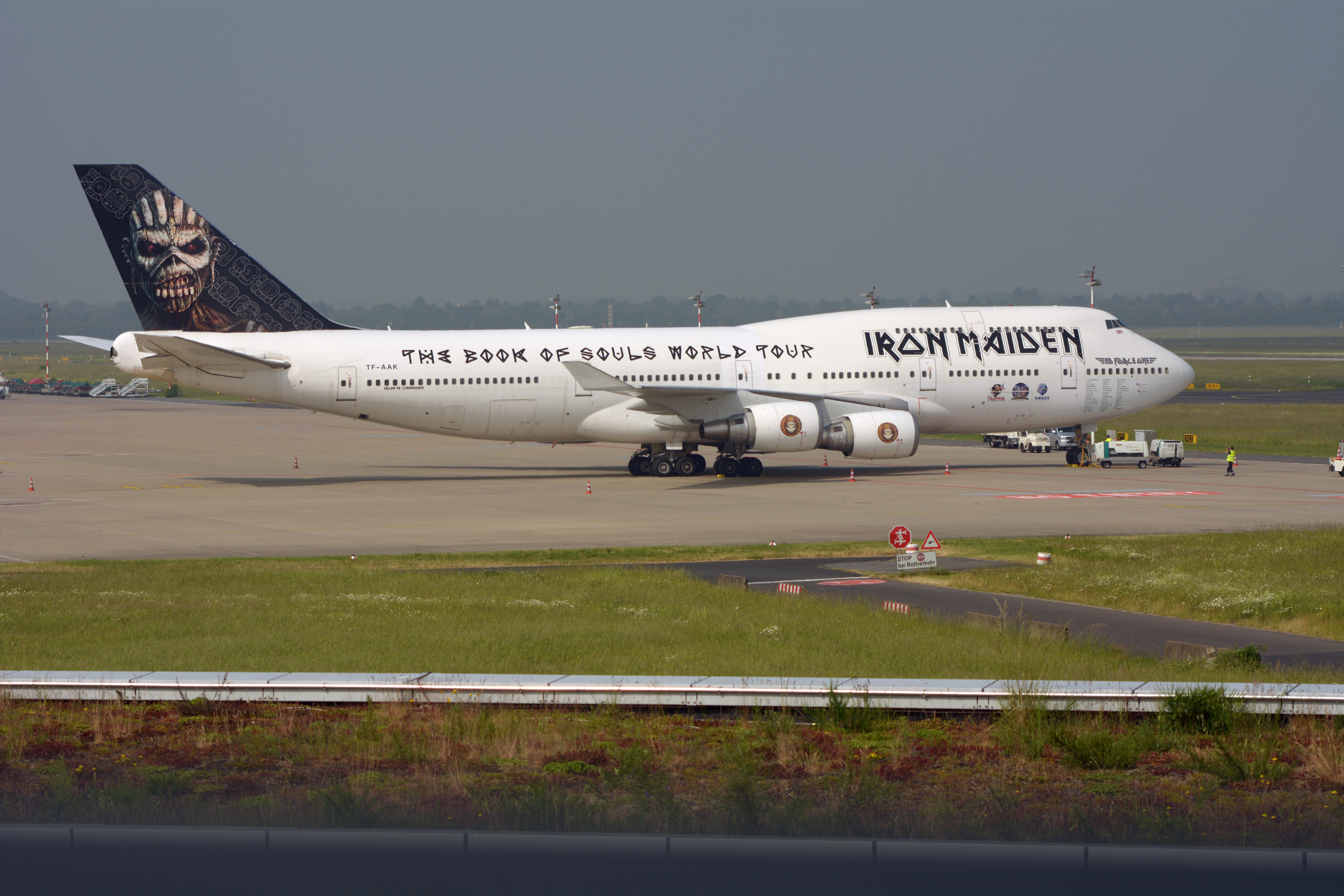 Ed Force One at Airport DUS - entire view